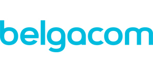 Belgacom Logo